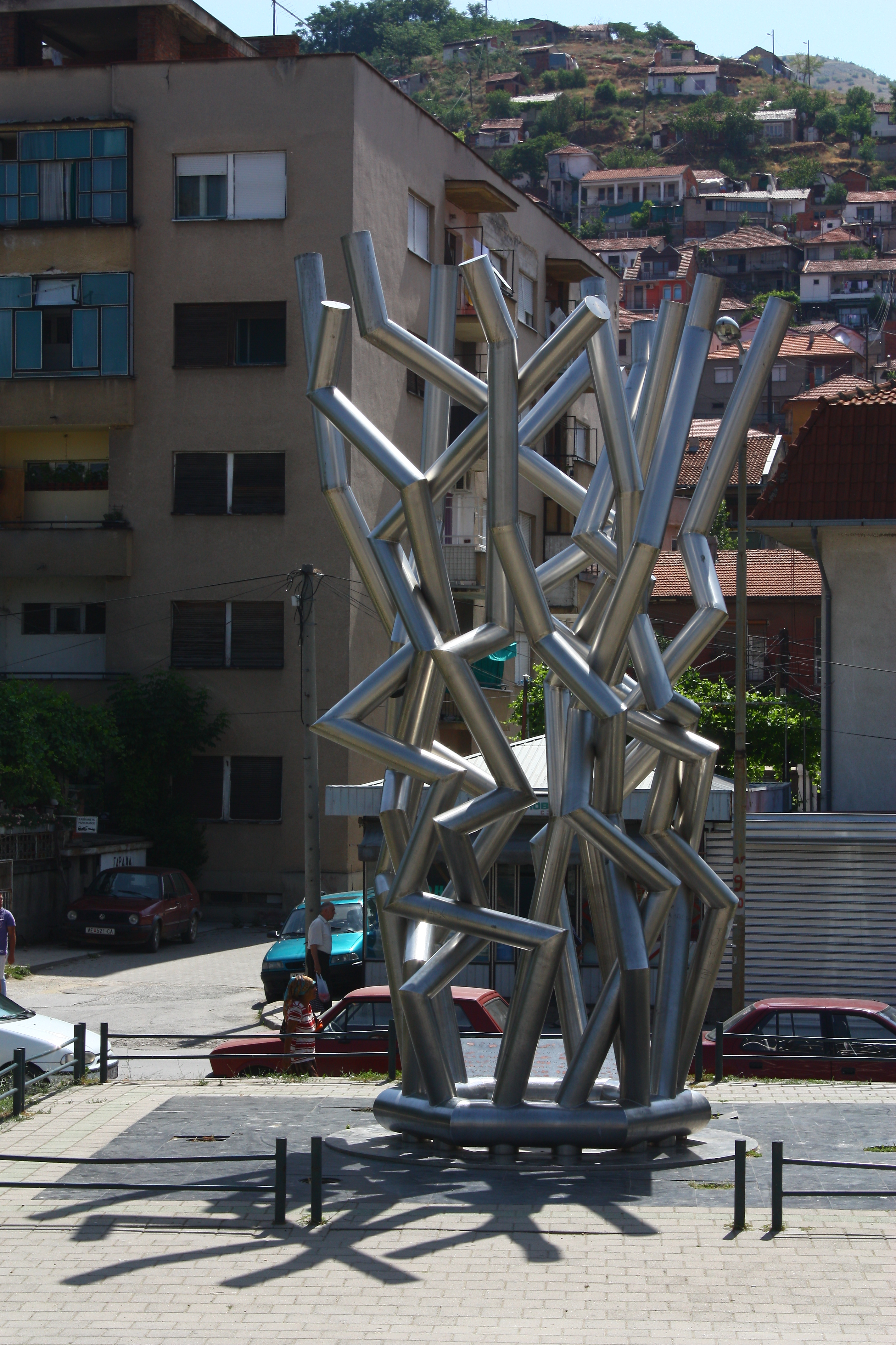 Gemidžii monument in Veles, Macedonia